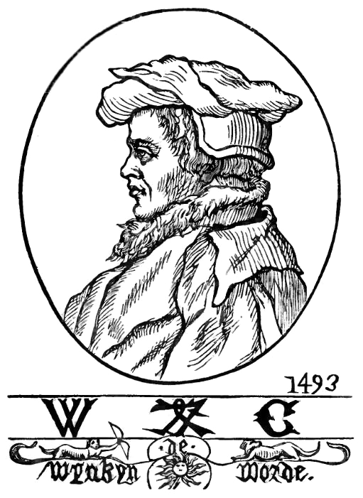 Wynkyn de Worde. 1493–1534. The second printer at Westminster.